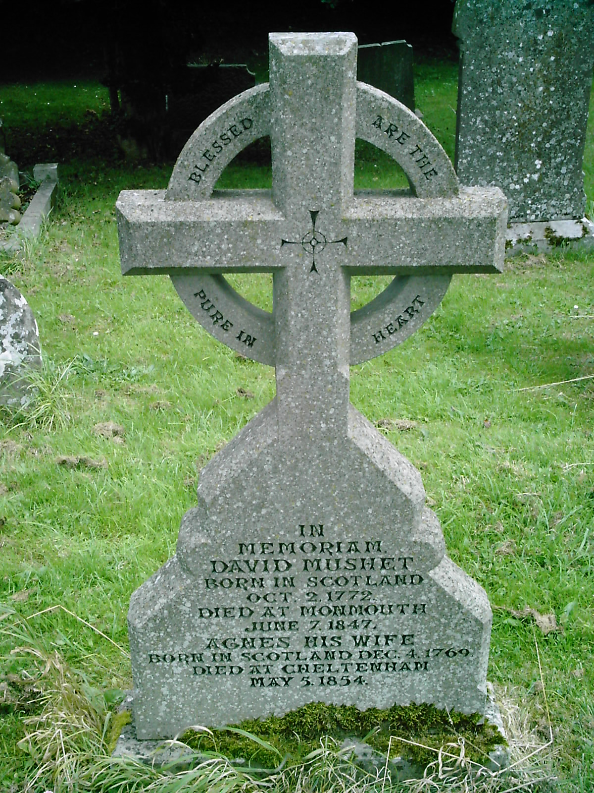 Grave of David and Agnes Mushet, Staunton, Forest of Dean. The original gravestone has deteriorated and is now in the Dean Heritage Museum. It was replaced by this replica.